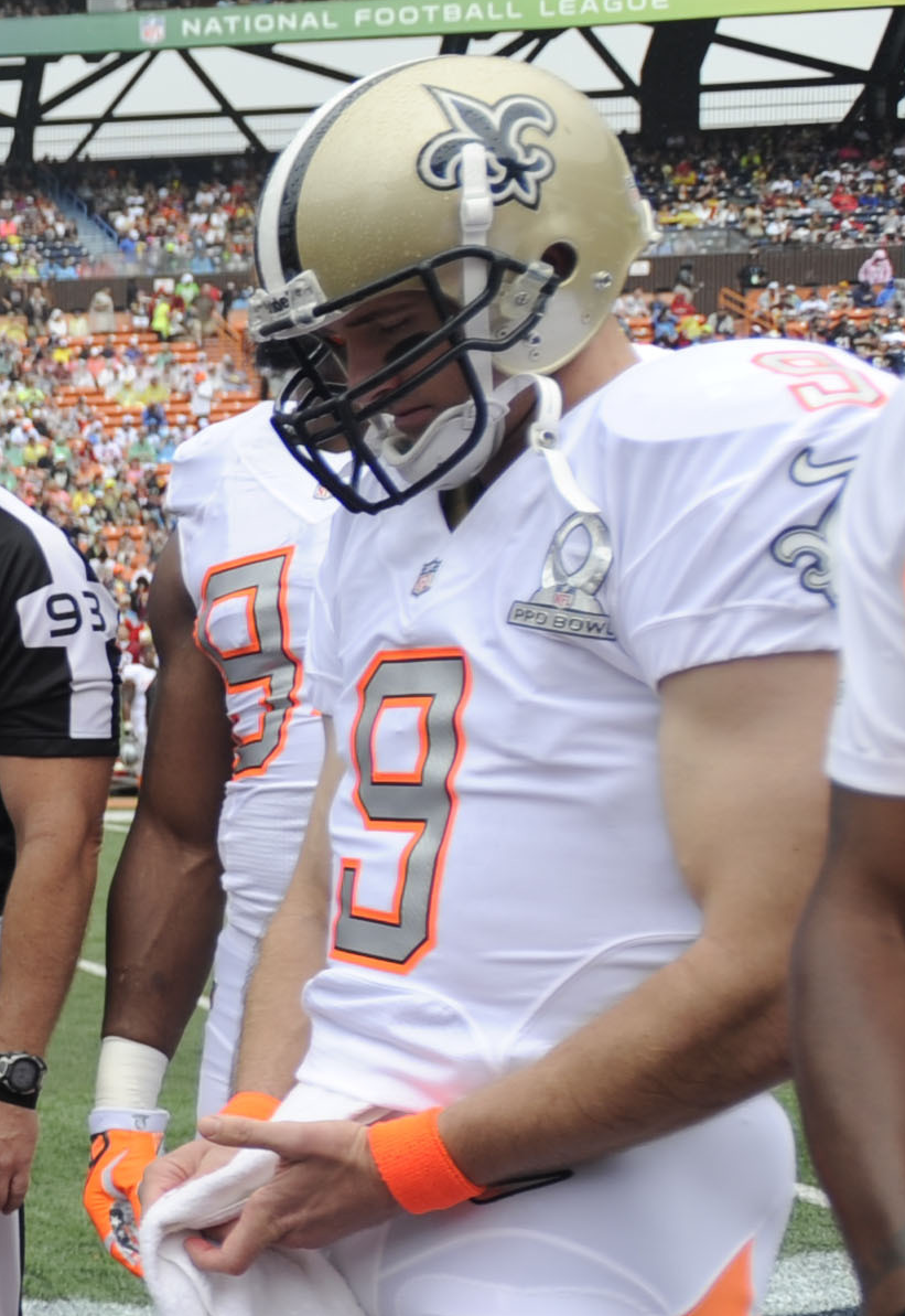 Drew Brees during 2014 Pro Bowl coin toss.